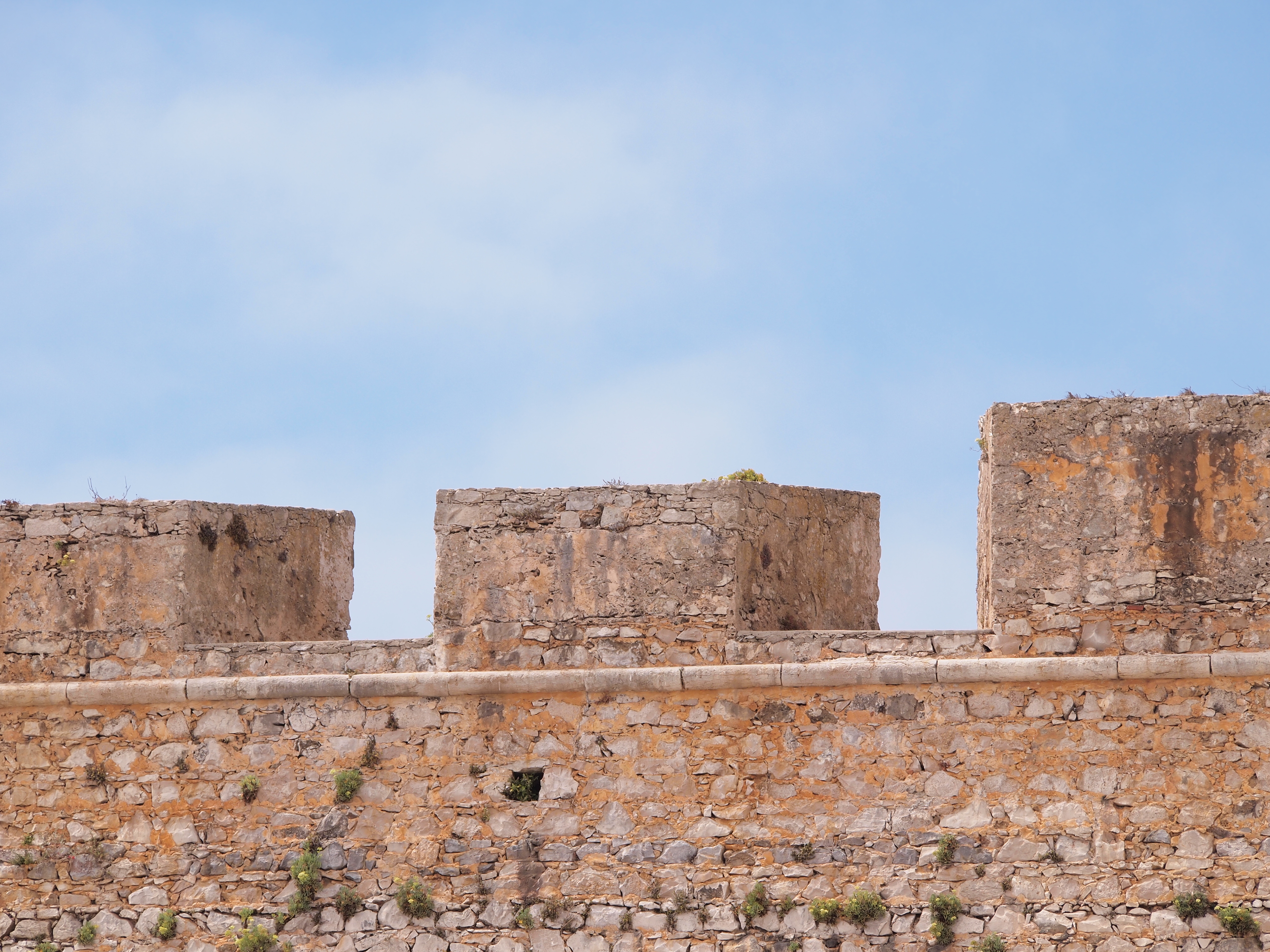 a wall of the "Forte de Peniche" - a military structure that served as a political prison during the "Estado Novo" regime. There is currently a museum that illustrates the history of Peniche (with pieces of archeology and local crafts, for example) and that evokes the anti-fascist resistance. Peniche, Portugal Happy Wall Wednesday